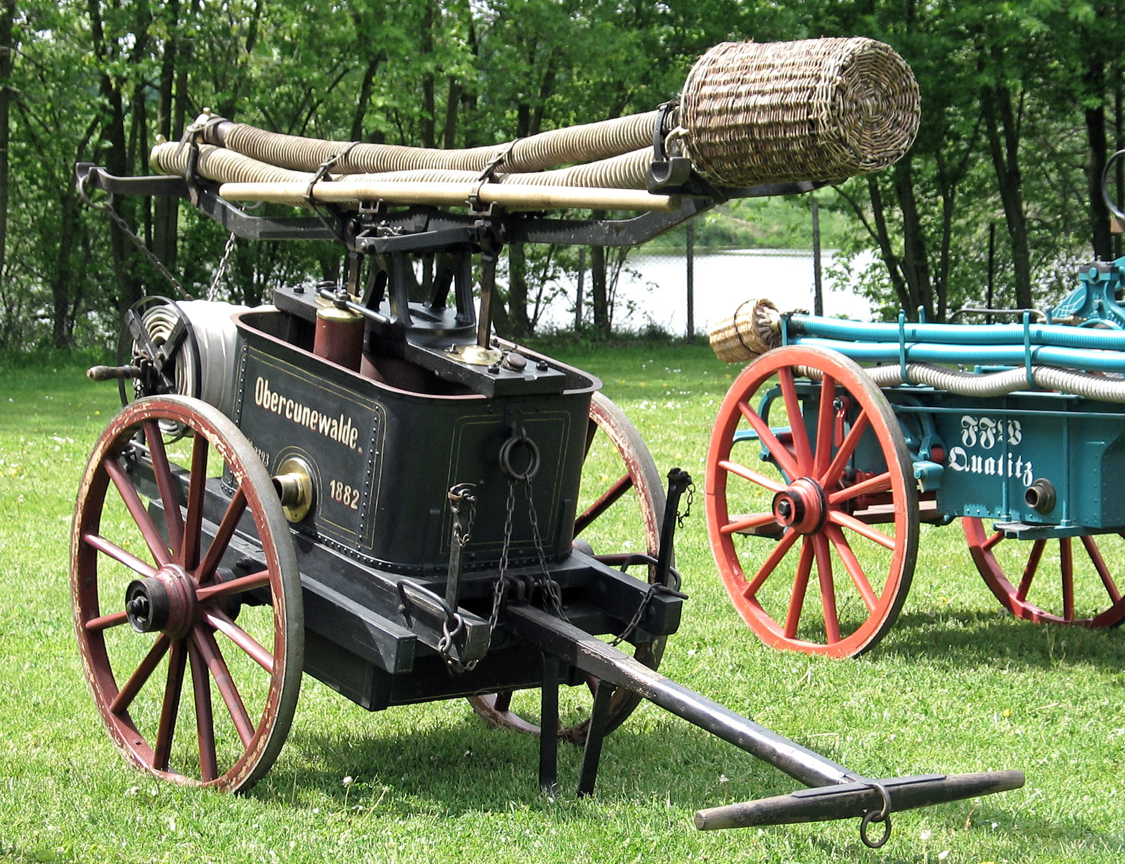 Historical fire engine of the German town Obercunewalde.